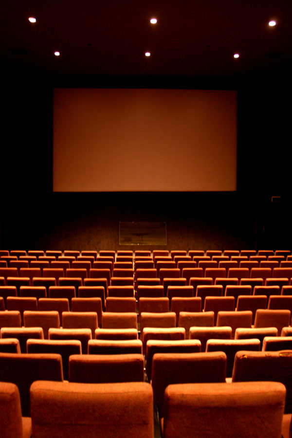 Cinema 4 at HOYTS, Forest Hill Shopping Centre, Forest Hill, Victoria, Australia.Shhhhhh